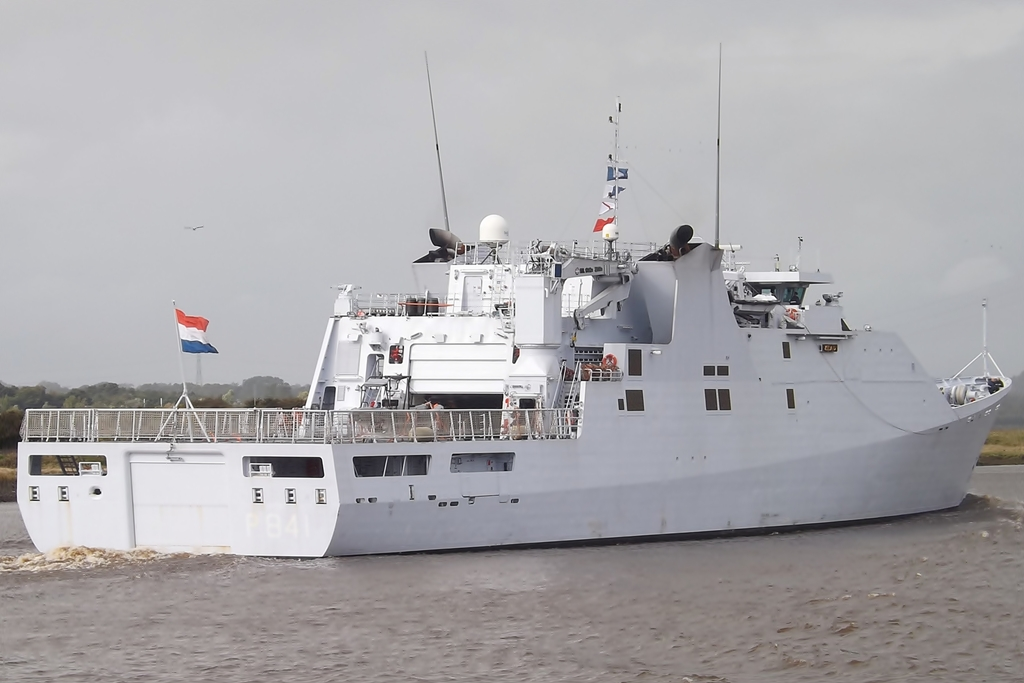 P841 HNLMS Zeeland, a Holland Class Offshore Patrol Vessel of the Royal Netherlands Navy, passing Clydebank